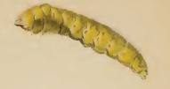 Stainton’s Natural History of the Tineina (1855–1873): Parectopa ononidis